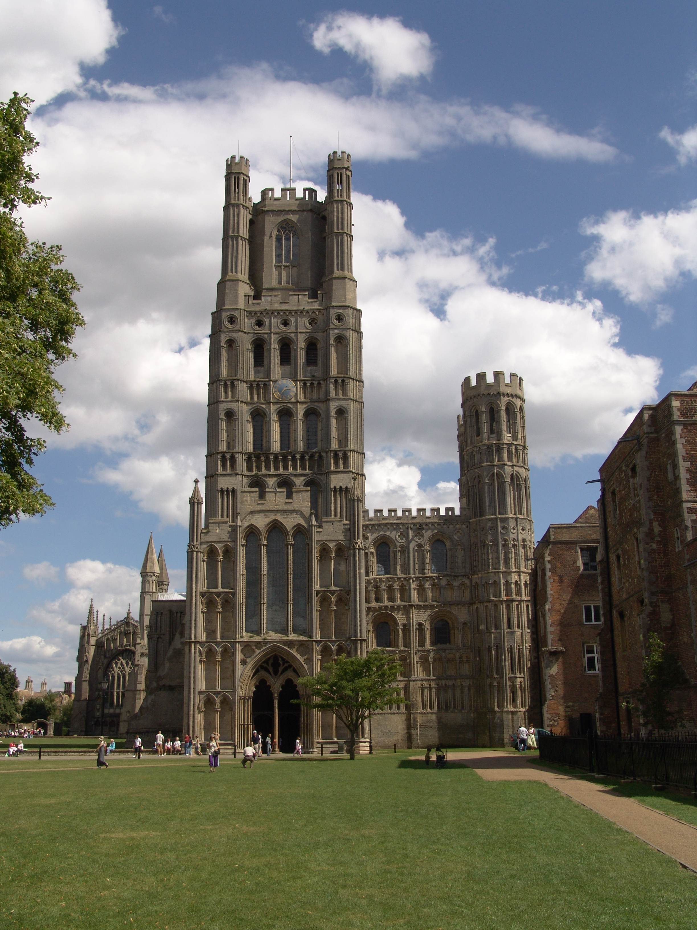 Ely Cathedral - West tower